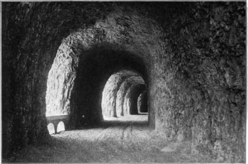 Mitchell Point Tunnel on the Columbia River Highway, looking east